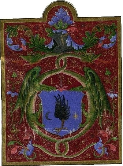 László Kanizsai's crest